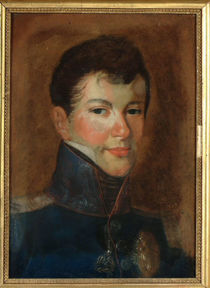 Portrait of Carlo Alberto (1798-1849) future king of Sardinia young